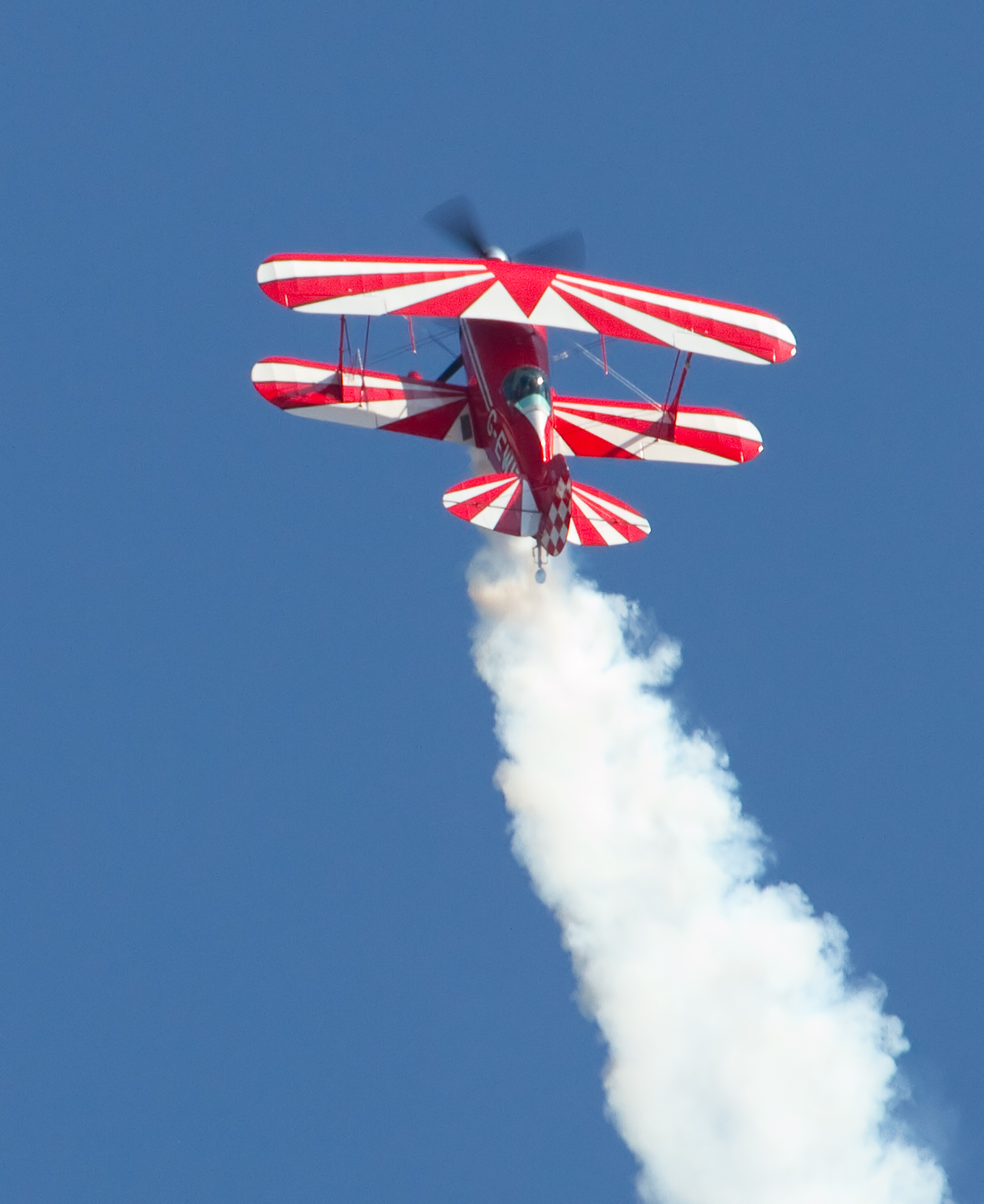 Pitts Special